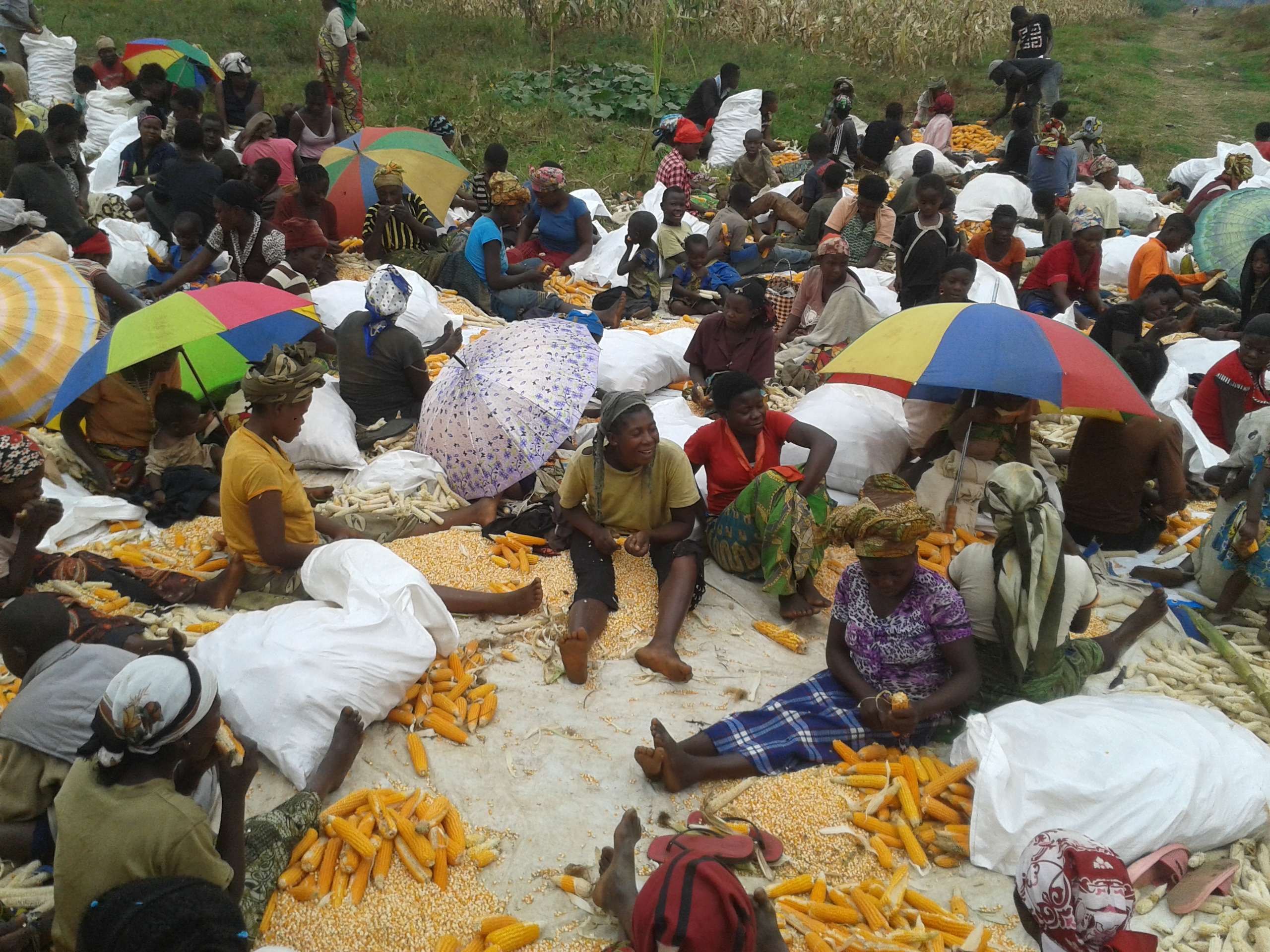 Elles sont heureuses dans leur travail This is an image of "African people at work" from Democratic Republic of the Congo